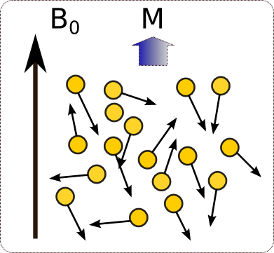 paramagnetism